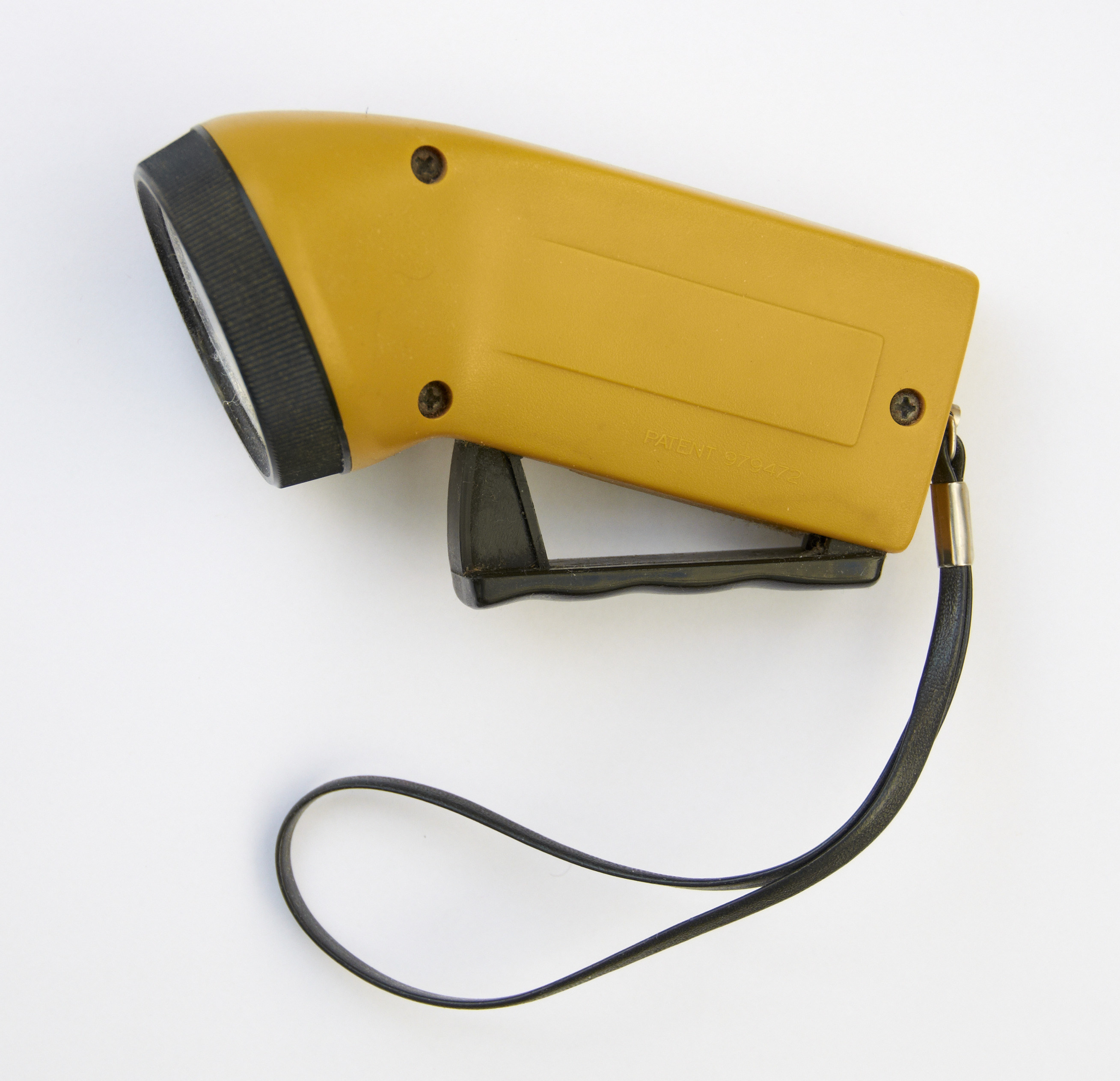 A dyno torch, which produces light by muscle power. Squeezing the handle shown turns a flywheel, which turns a brushless AC generator, producing electric current which powers the light bulb. It must be pumped continuously to produce light.